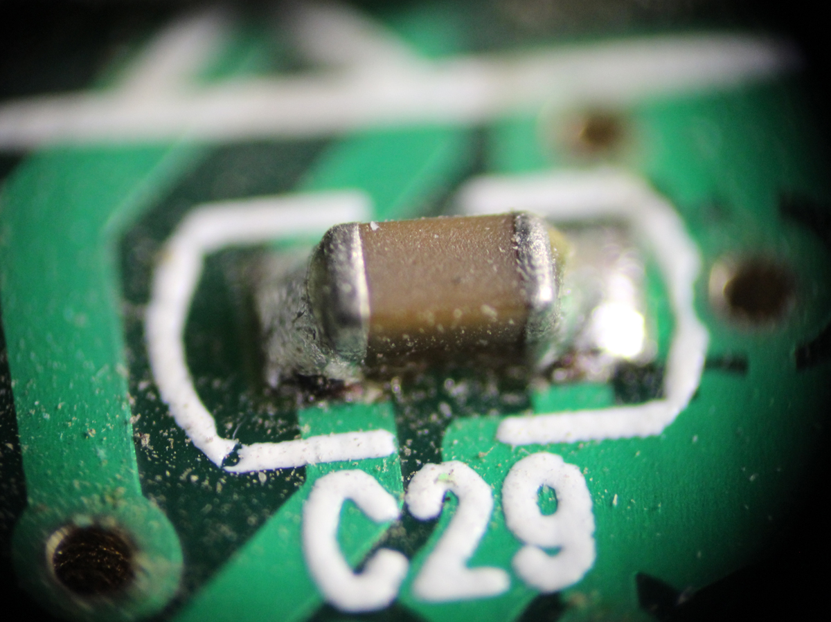 SMD (Surface Mounted Device) Capacitor